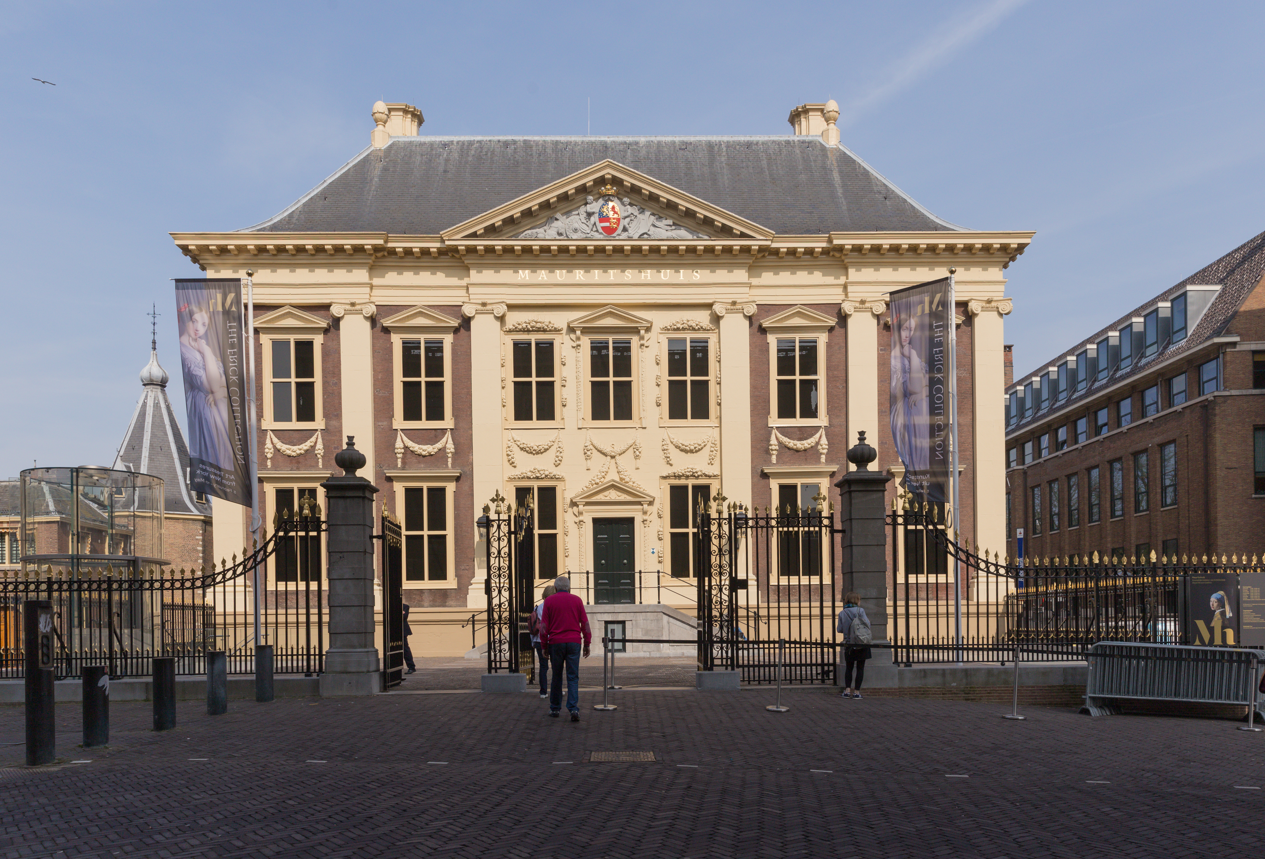 Mauritshuis The Hague